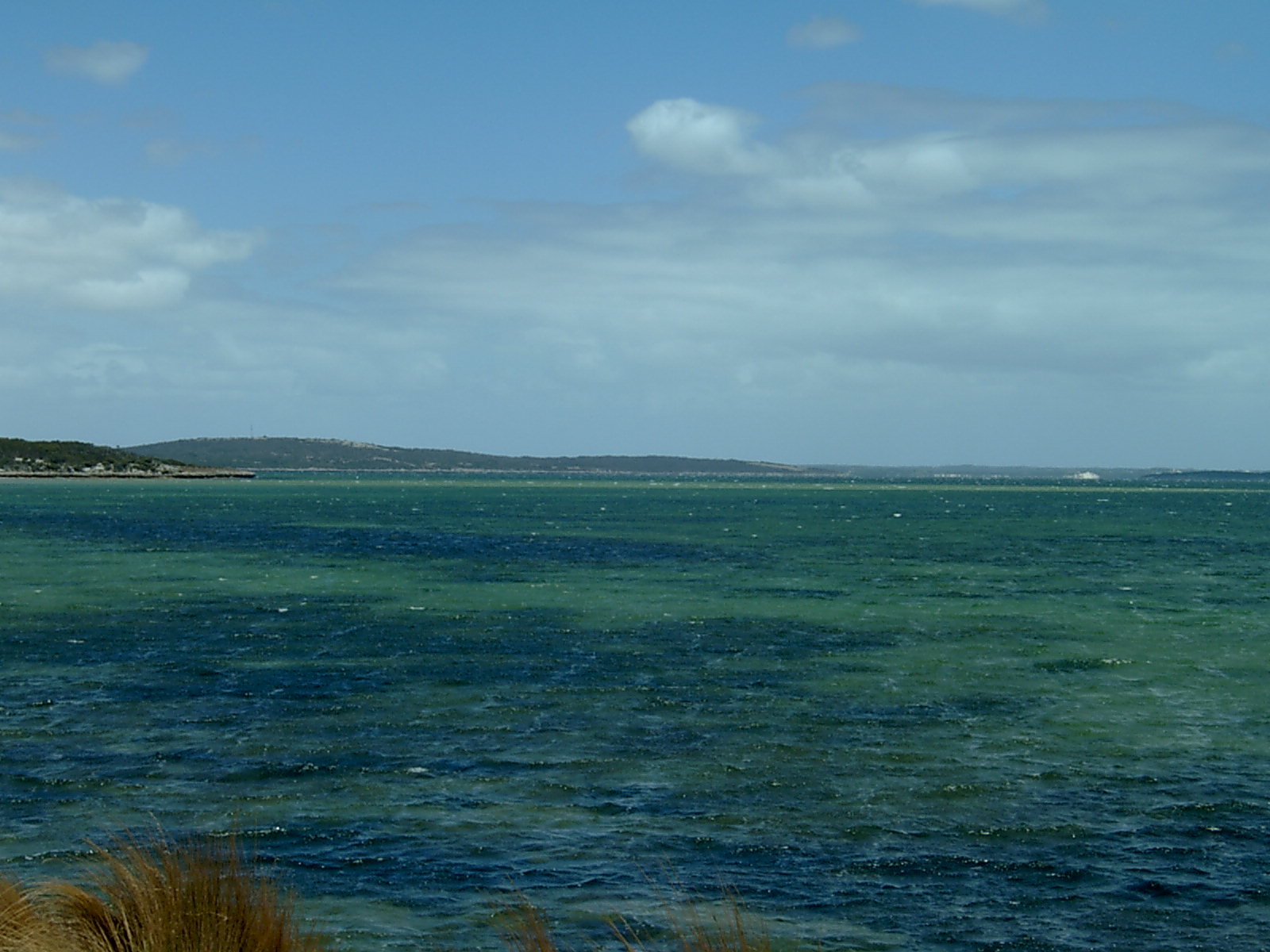 January 2007.